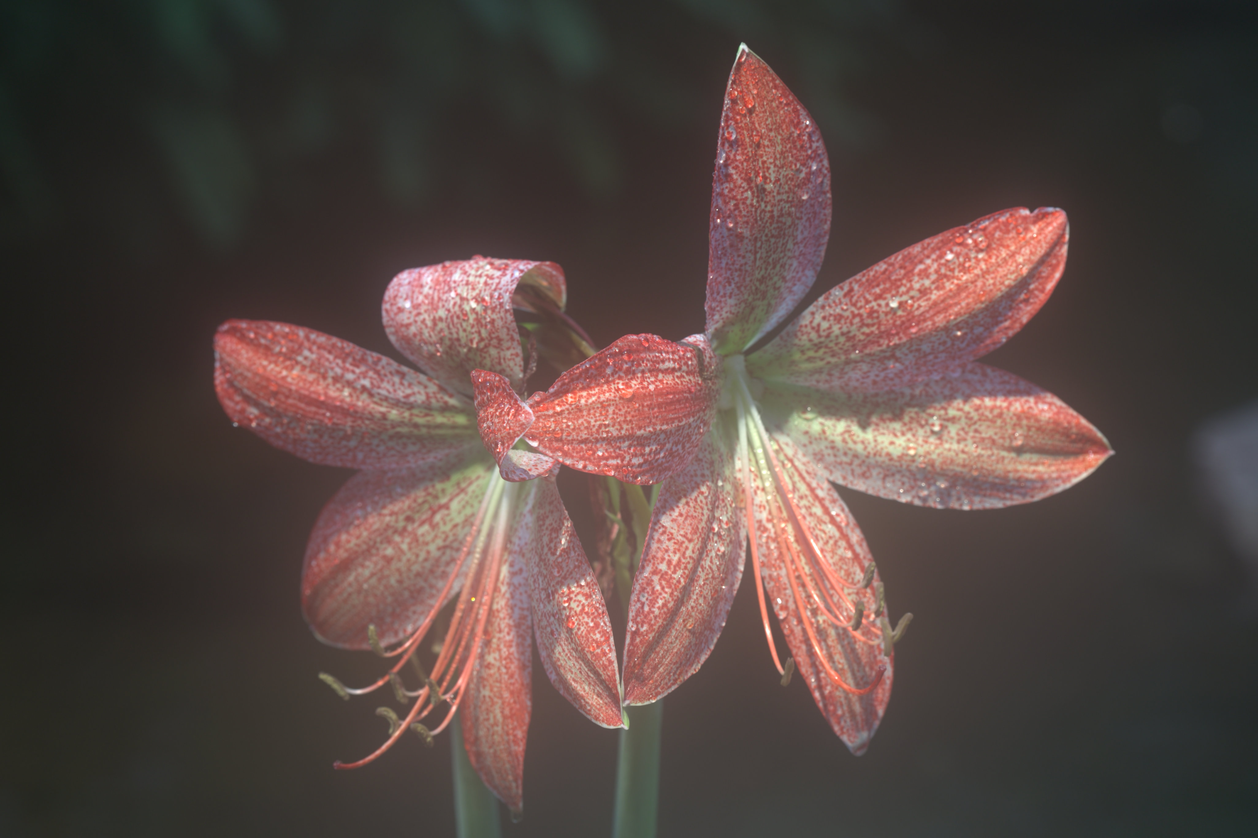 Hippeastrum pardinum in Gothenburg Botanical Garden. Plant id: 2009-465 p G -- Uppsala